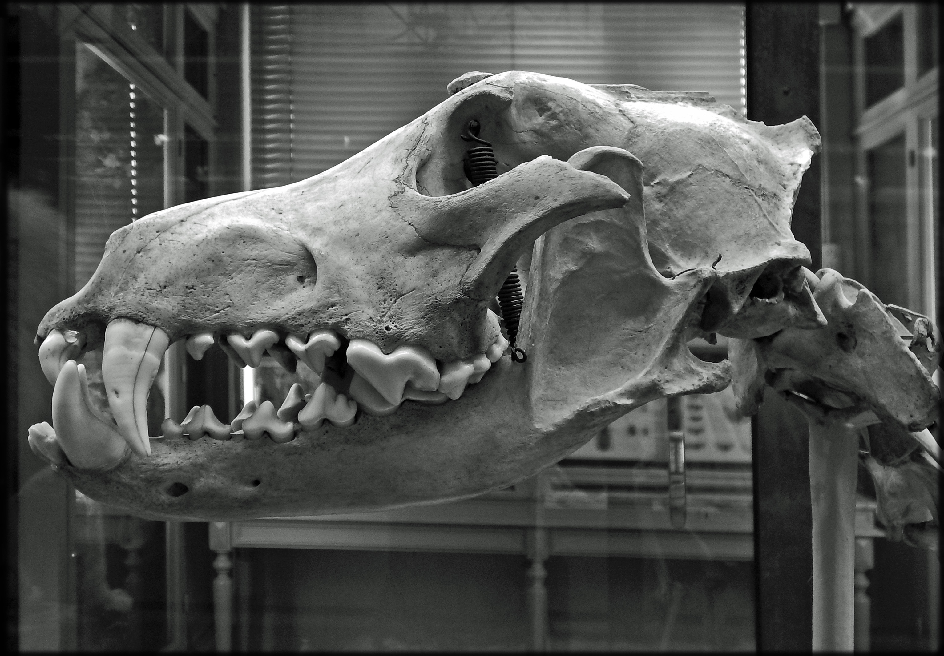 Canis lupus lupus in the collections of mammals on the ground floor of the Museum of Natural History Lille, as presented in 2016.